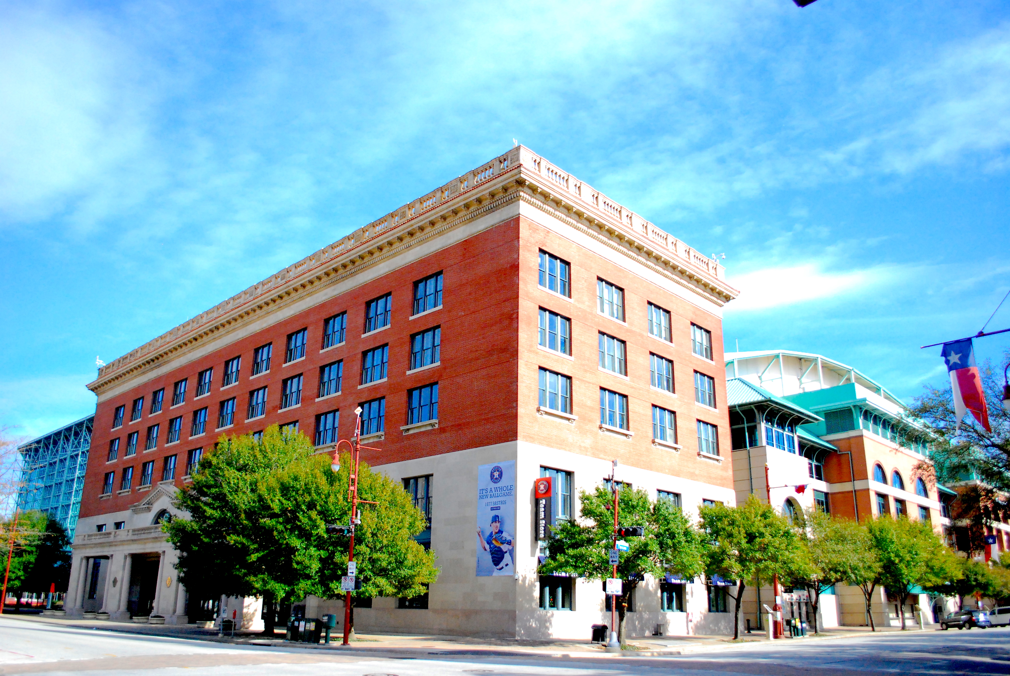 A view of Minute Maid Park from the intersection of Crawford Street at Texas Avenue